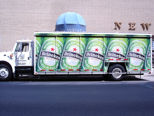 description: Heineken truck parked in Cincinnati, Ohio photographer: Jason Meredith photographer_location: Louisville, KY photographer_url: [1] flickr_url: [2] taken:June 26, 2007